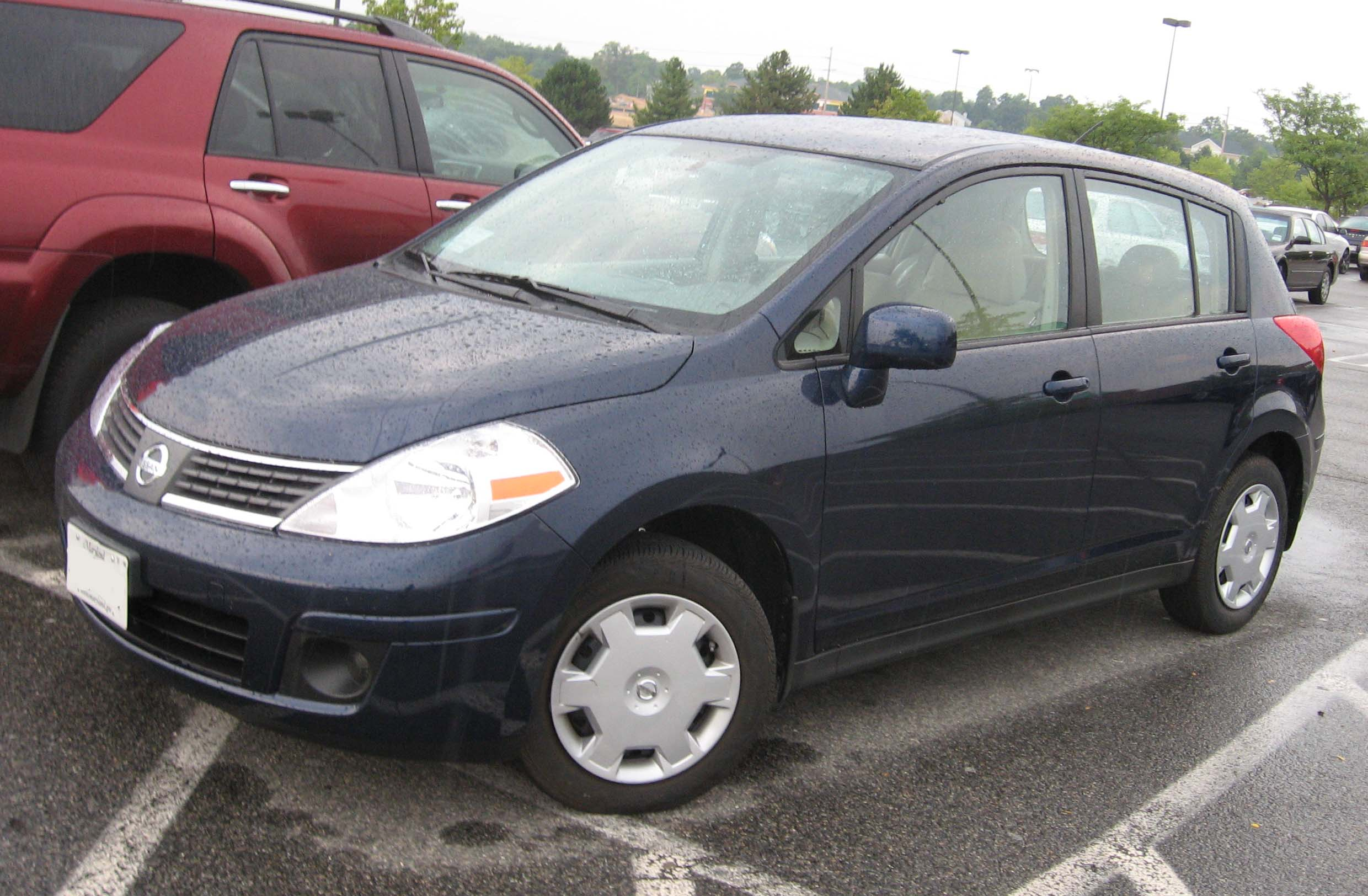 2007 Nissan Versa photographed in USA.